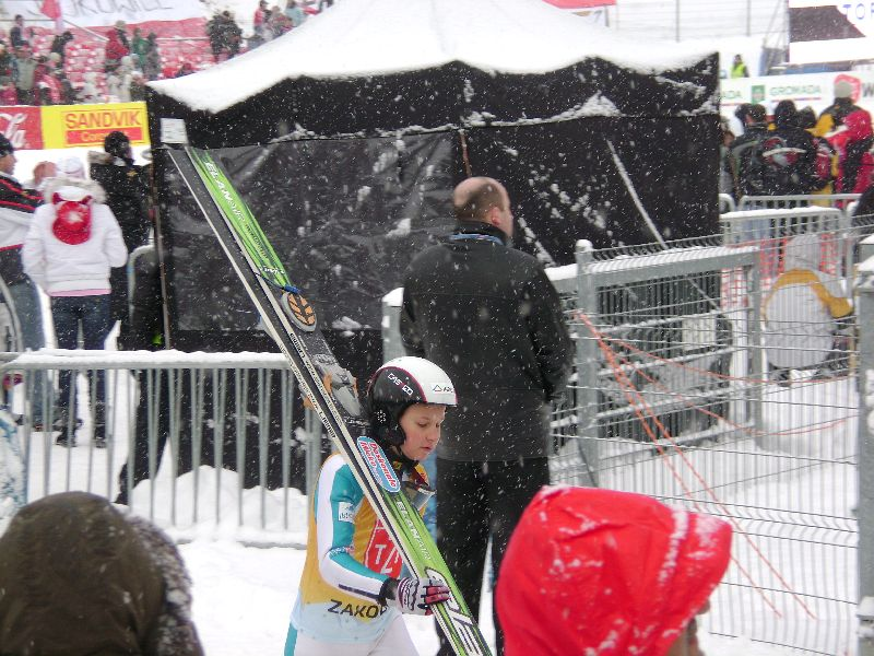 ski jumper Klemens Muranka from Poland during the World Cup in Zakopane on 27-1-2008